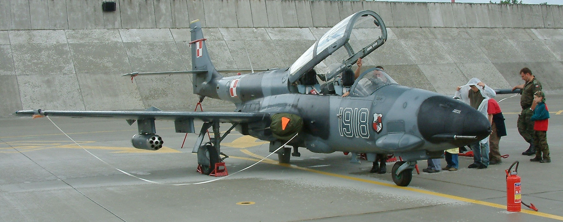 TS-11 Iskra R with markings of 3rd Tactical Sqn